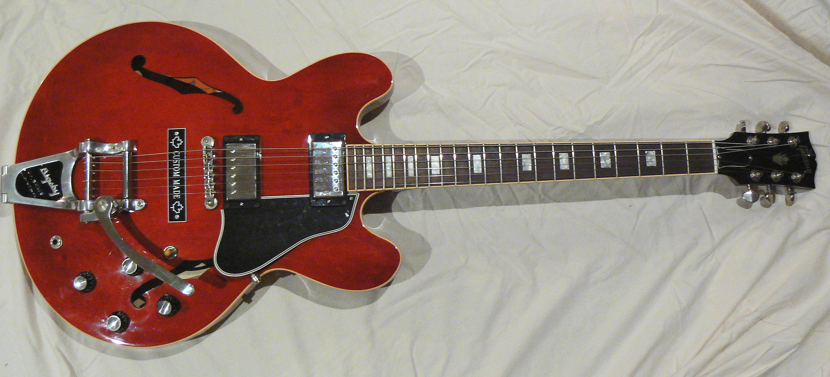 Custom Made Canada Edition of the Gibson ES-335 semi-hollow E-guitar model. The color finish of the guitar’s body is wine red (shortened to WR in Gibson’s factory terms). This instrument has been modified with a custom Bigsby vibrato tailpiece instead of the original factory-made stop-tailpiece. The white-on-black nameplate between vibrato tailpiece and bridge is used to cover the stud holes that held the original tailpiece.